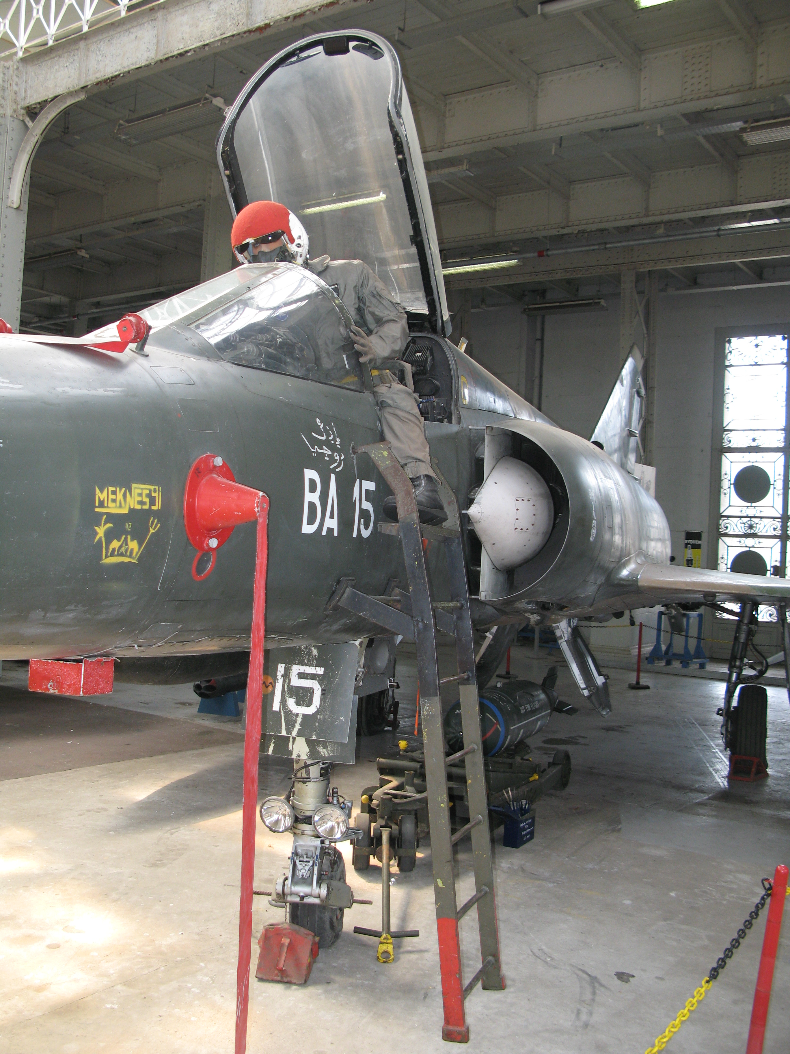 Dassault Mirage 5